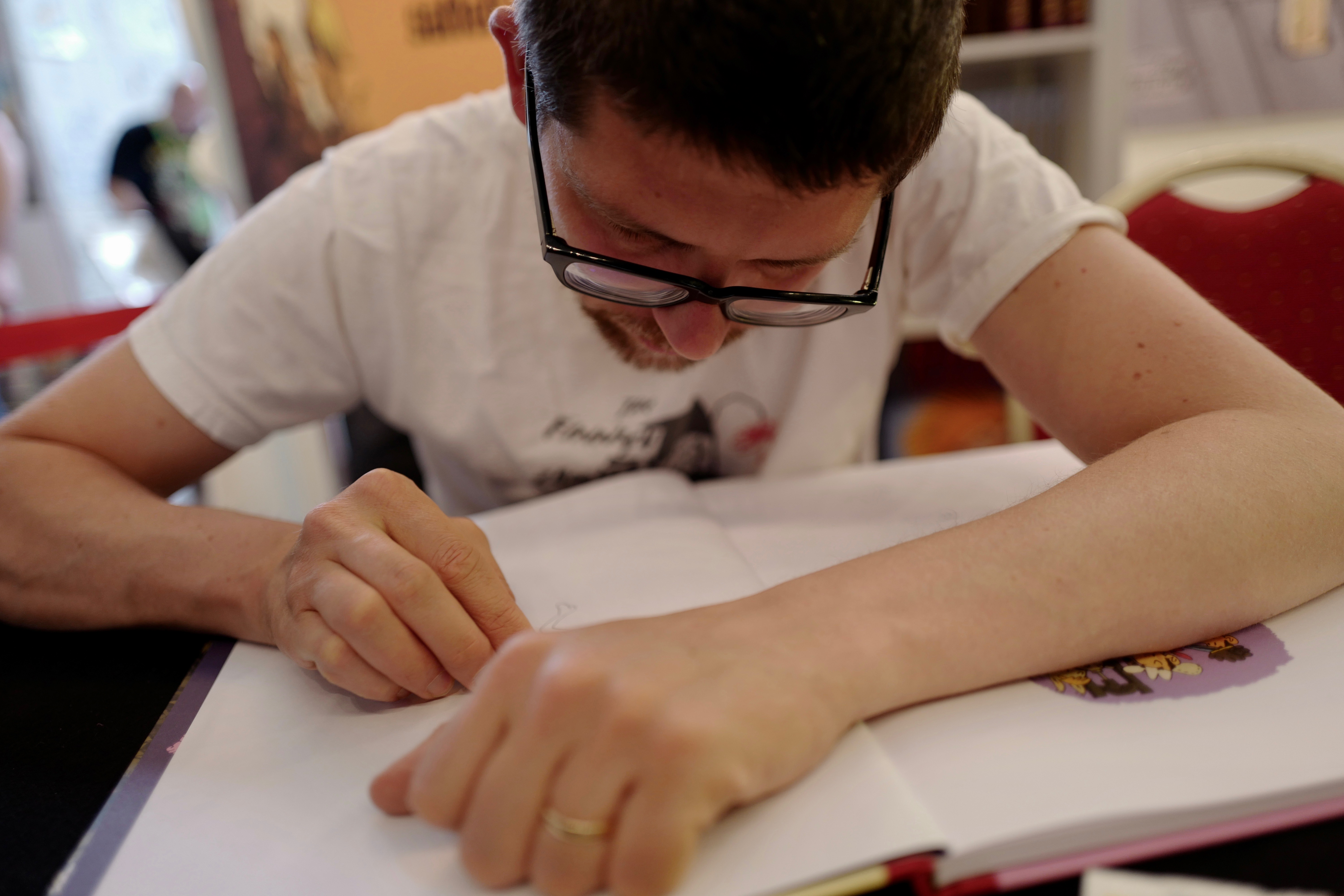 German comic book artist MAWIL at Munich, Germany Comic Festival cfm19 (June 2019), drawing.